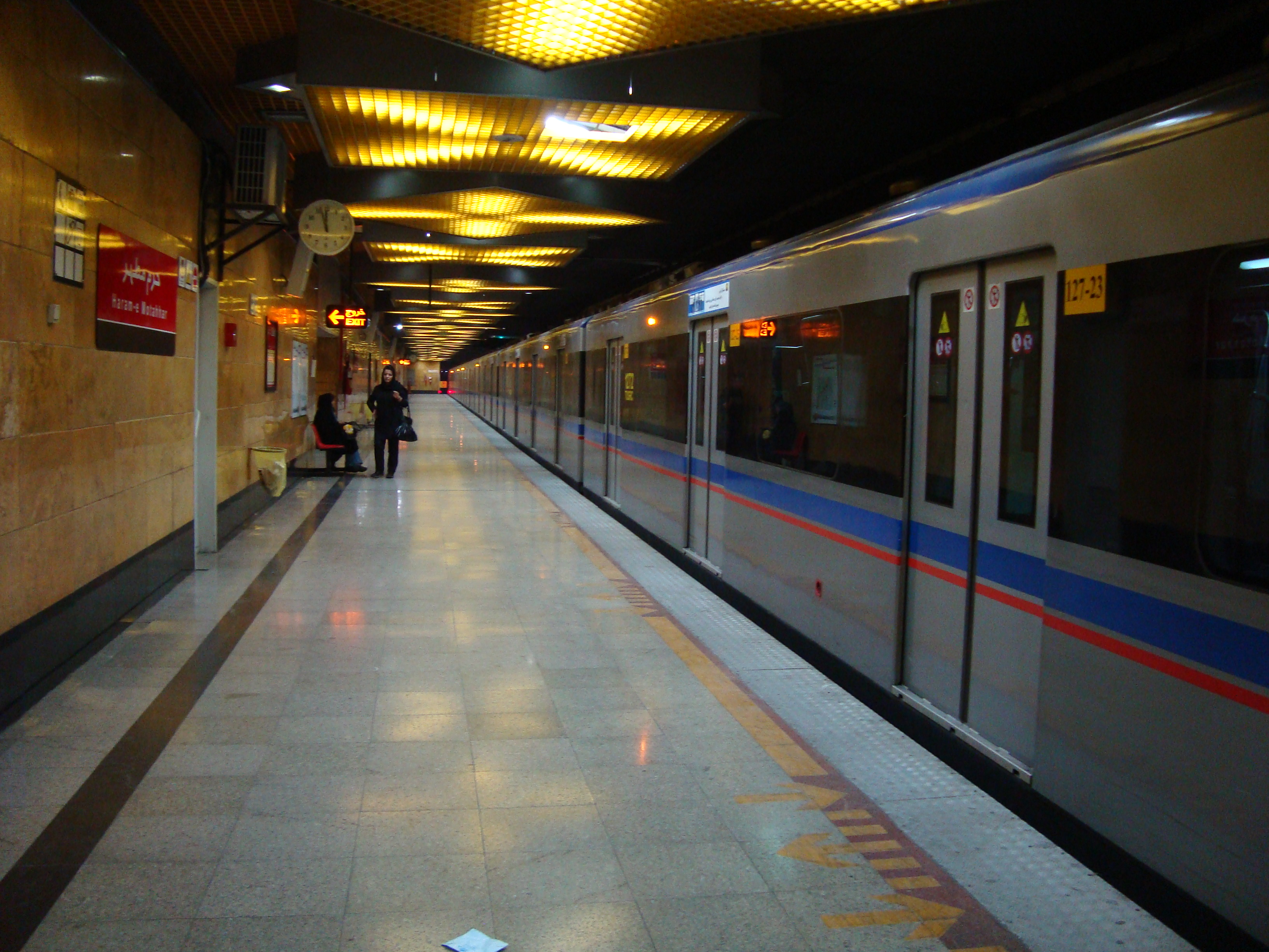 Harame Motahar subway station, Tehran